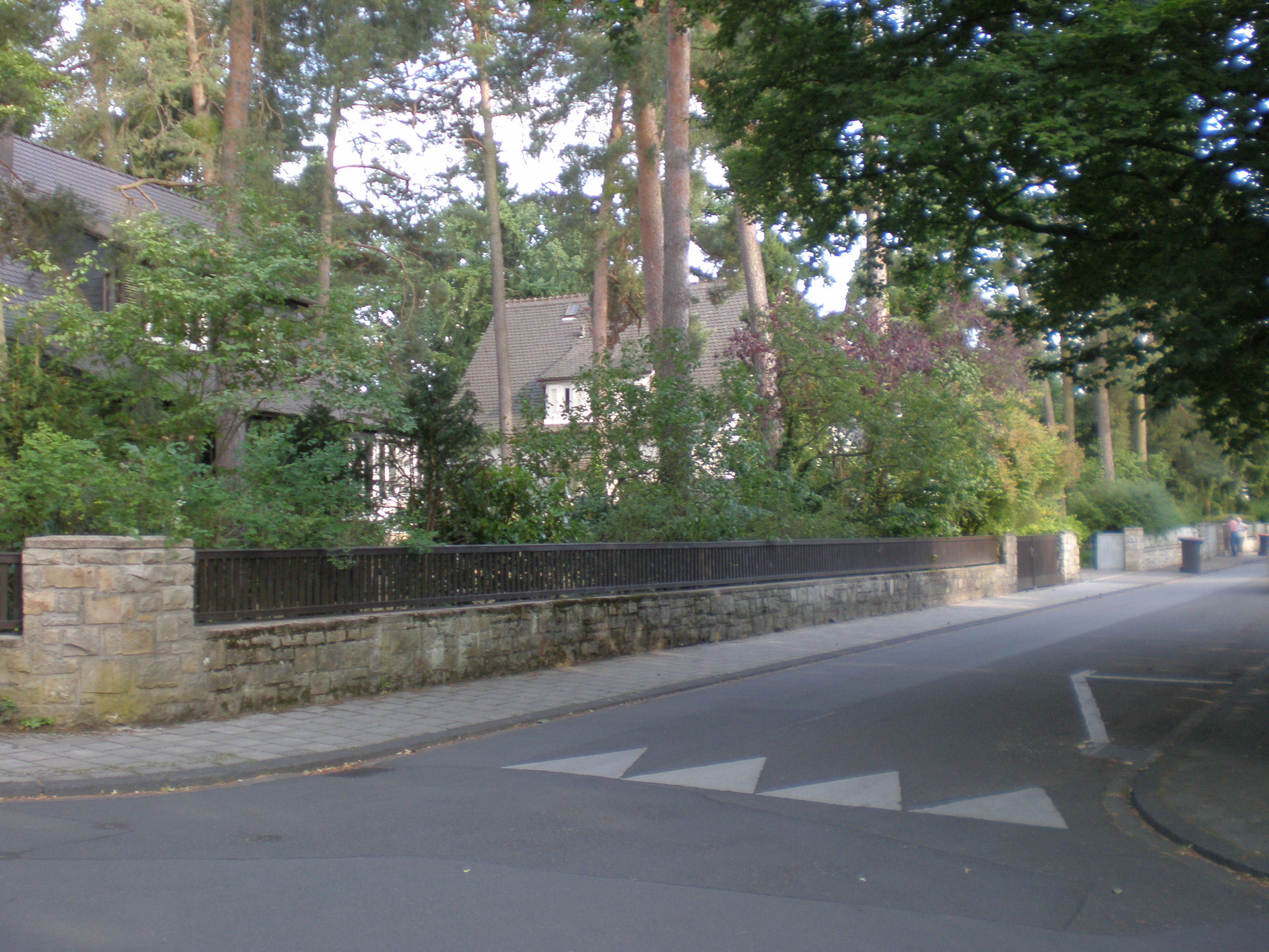 Shows a szene in DA-Eberstadt Villenkolonie.